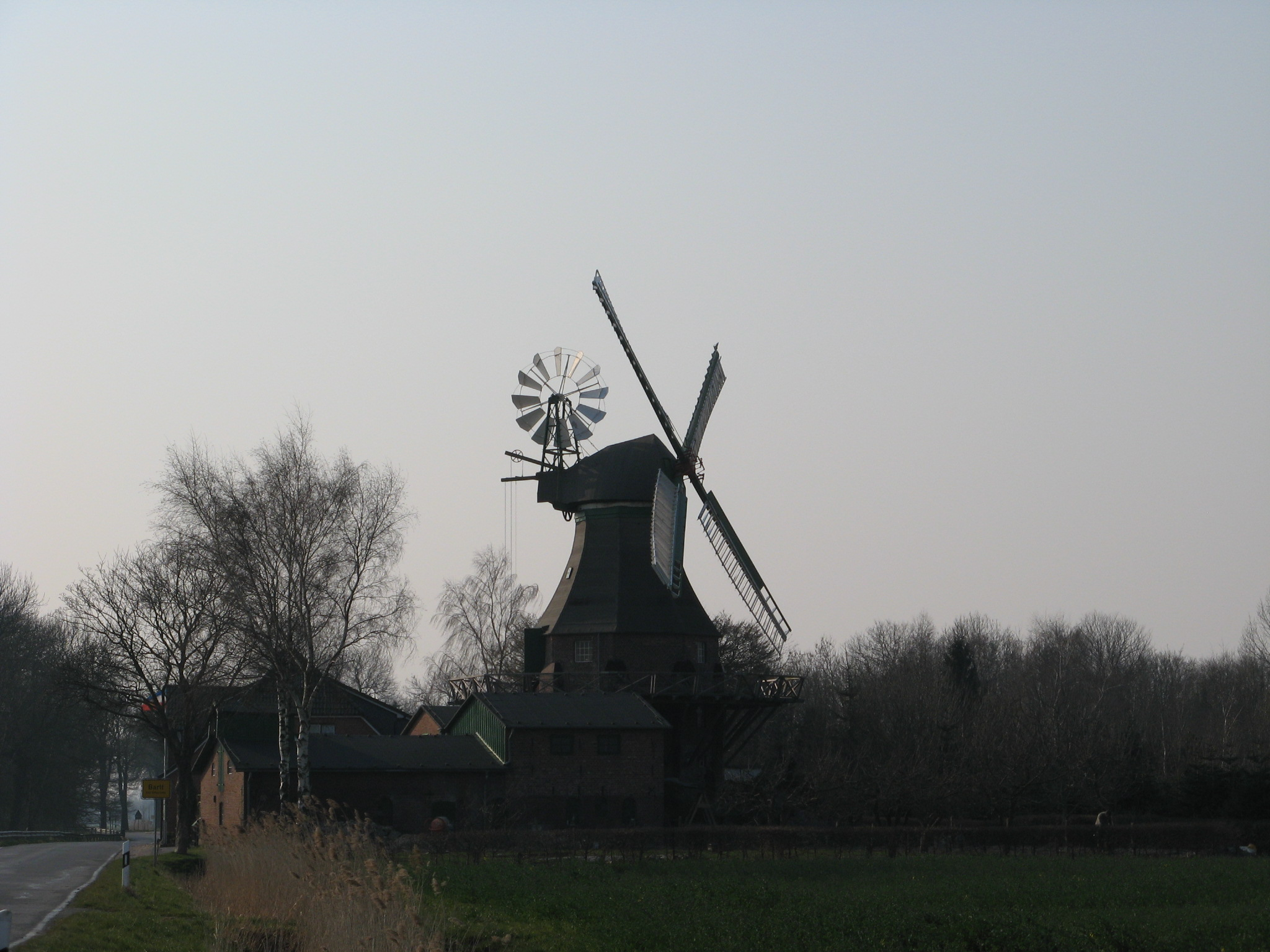 Barlt, Windmill "Ursula"